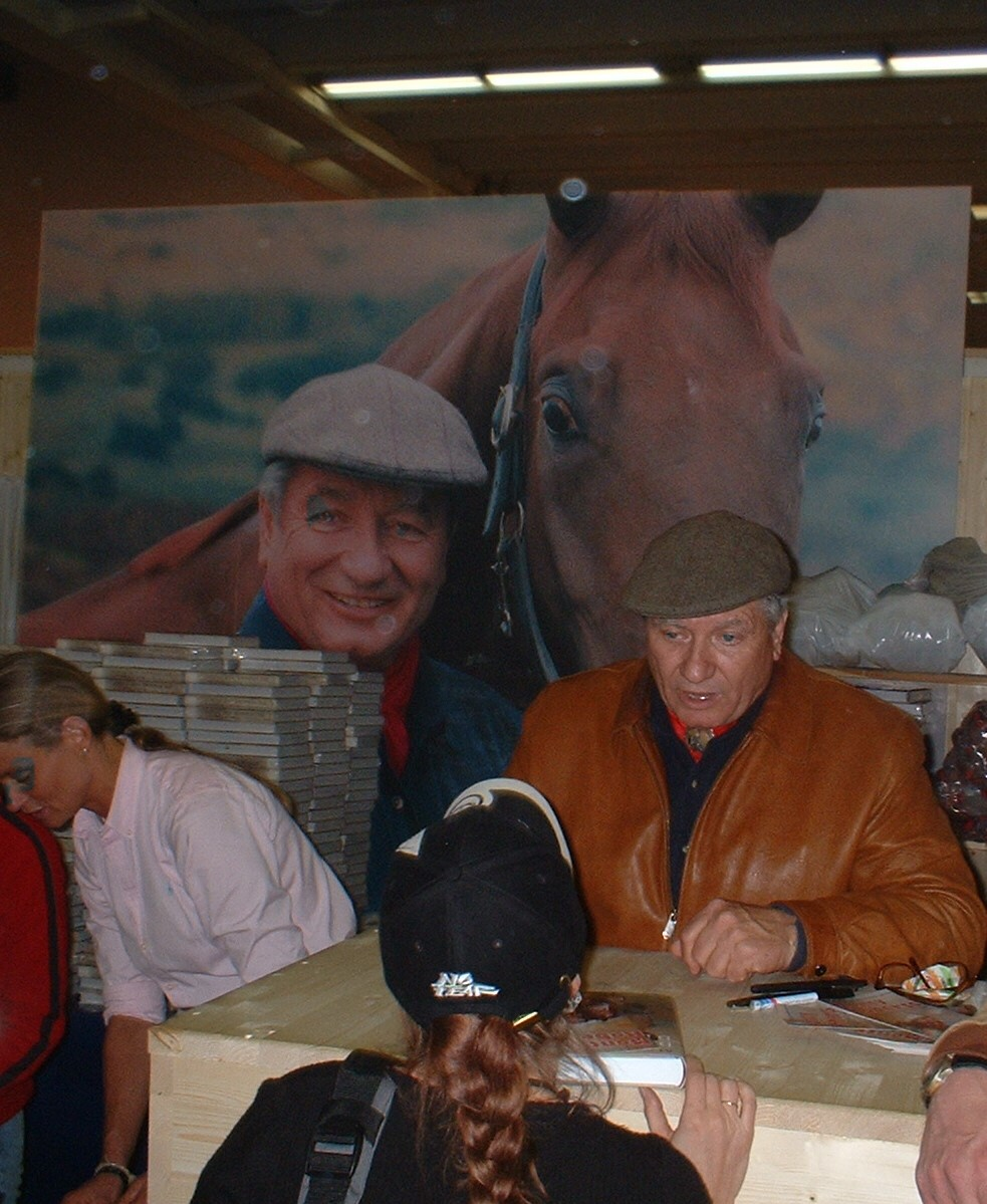 Monty Roberts at Equitana, Germany